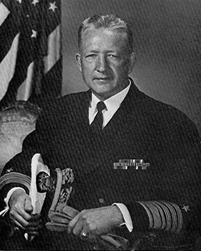 Claude Vernon Ricketts (February 23, 1906 - July 6, 1964) was a four star Admiral in the United States Navy, who served as the Vice Chief of Naval Operations from 1961 to 1964.